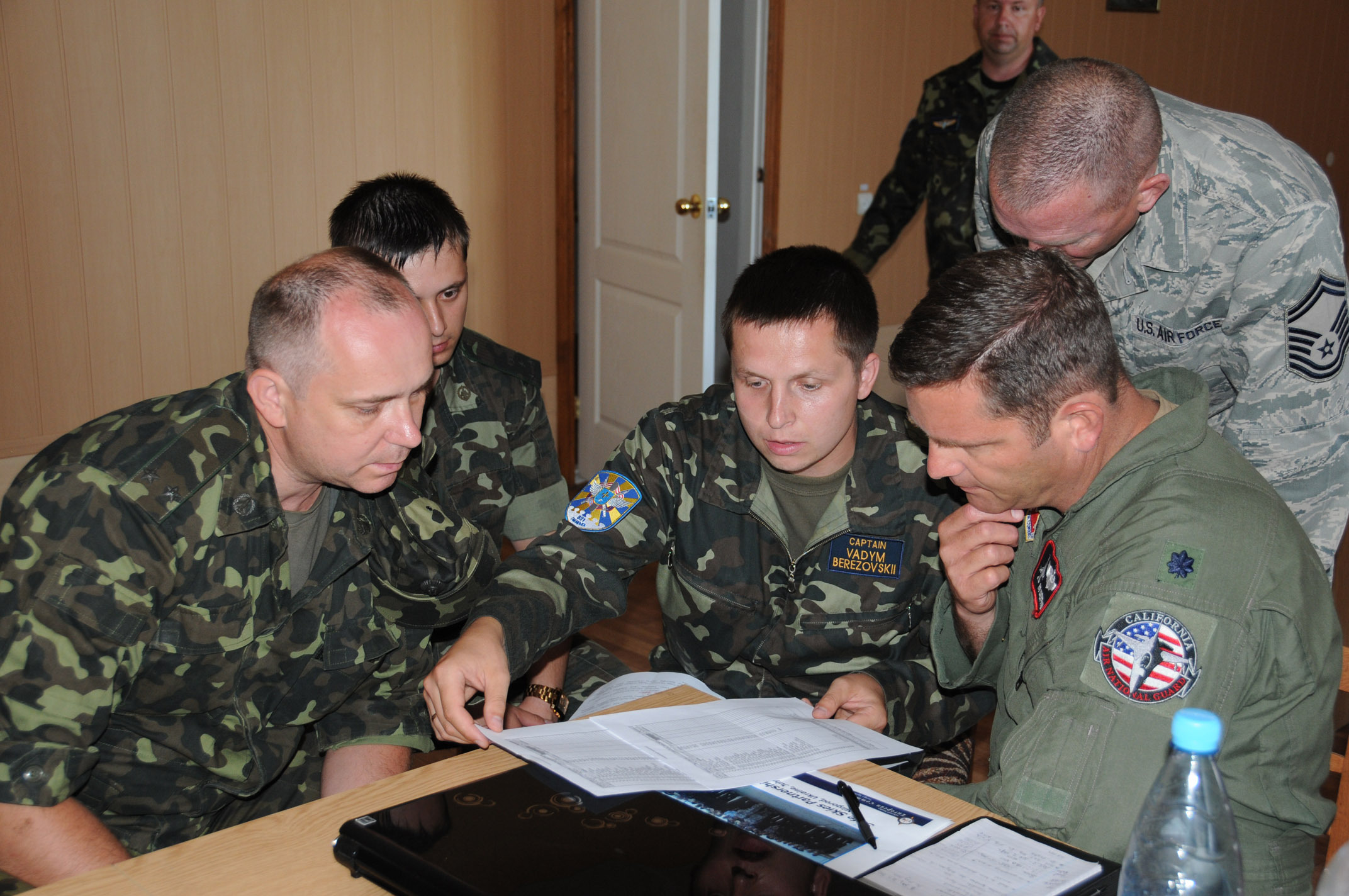 Lt. Col. Robert Swertfager, 144th Fighter Wing California Air National Guard, discusses the itinerary for Safe Skies 2011 with his Ukrainian counterparts, July 16. Safe Skies 2011 is a State Partnership program military-to-military exchange between California, Ukraine and Poland to enhance airspace security over the Ukraine and Poland in preparation for Eurocup 2012.